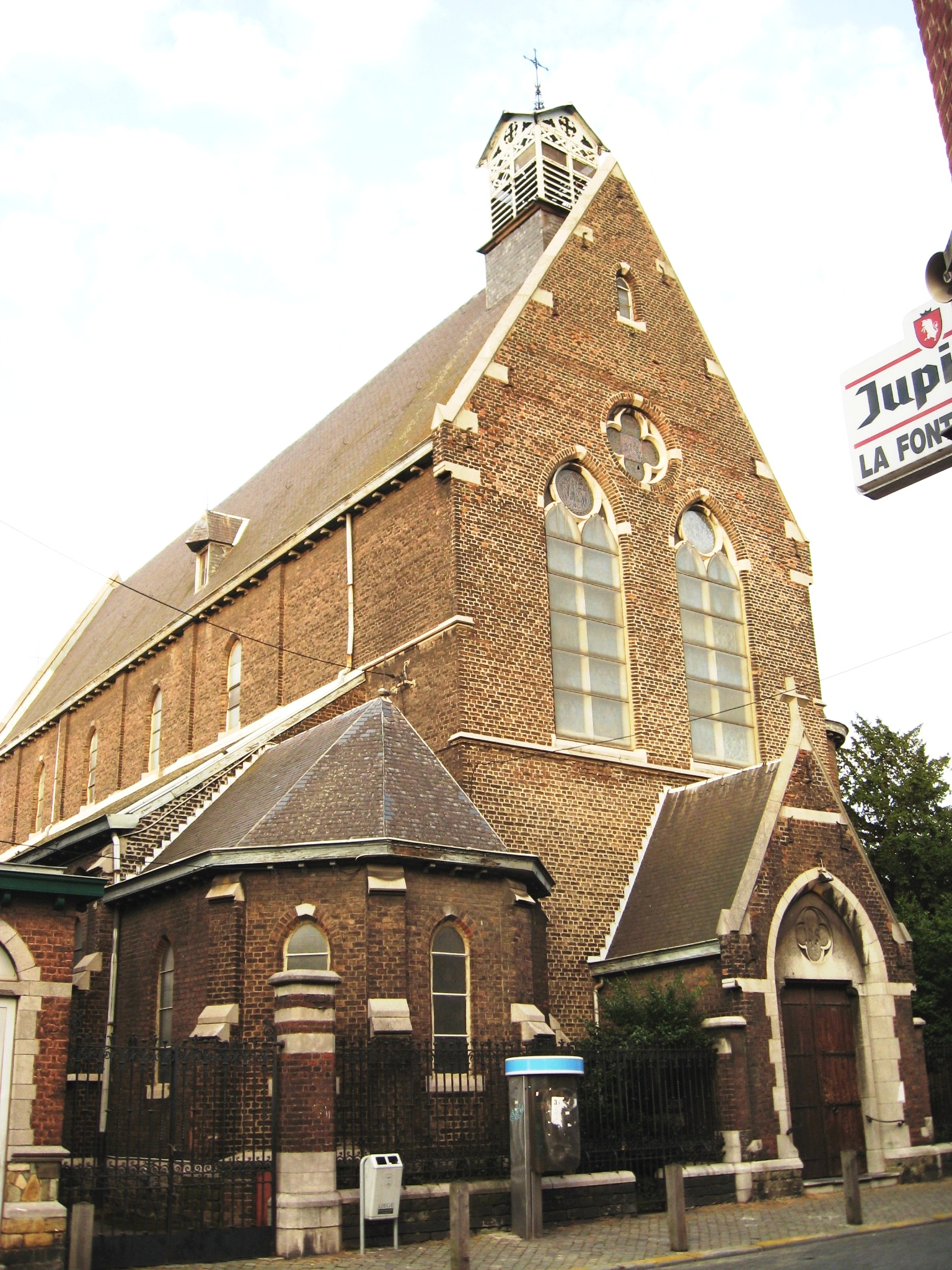 Church of Our Lady of the Rosary in Bressoux, Liège, Belgium